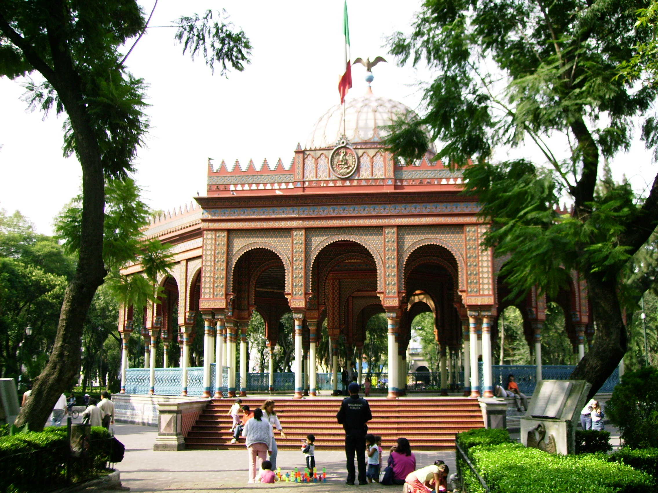 Santa Maria la Ribera, Mexico City, photo by Maurice Marcellin